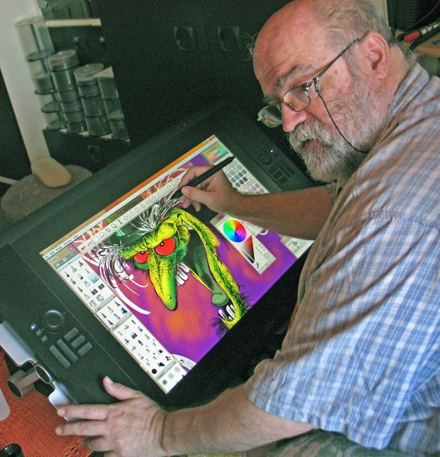 Božidar Milojković alias BAM (1952), Serbian artist, cartoonists, graphic designer and comics creator. Српски (ћирилица): Божидар Милојковић, уметничко име БАМ (рођен 1952), српски уметник, карикатуриста, стрипар и графички дизајнер